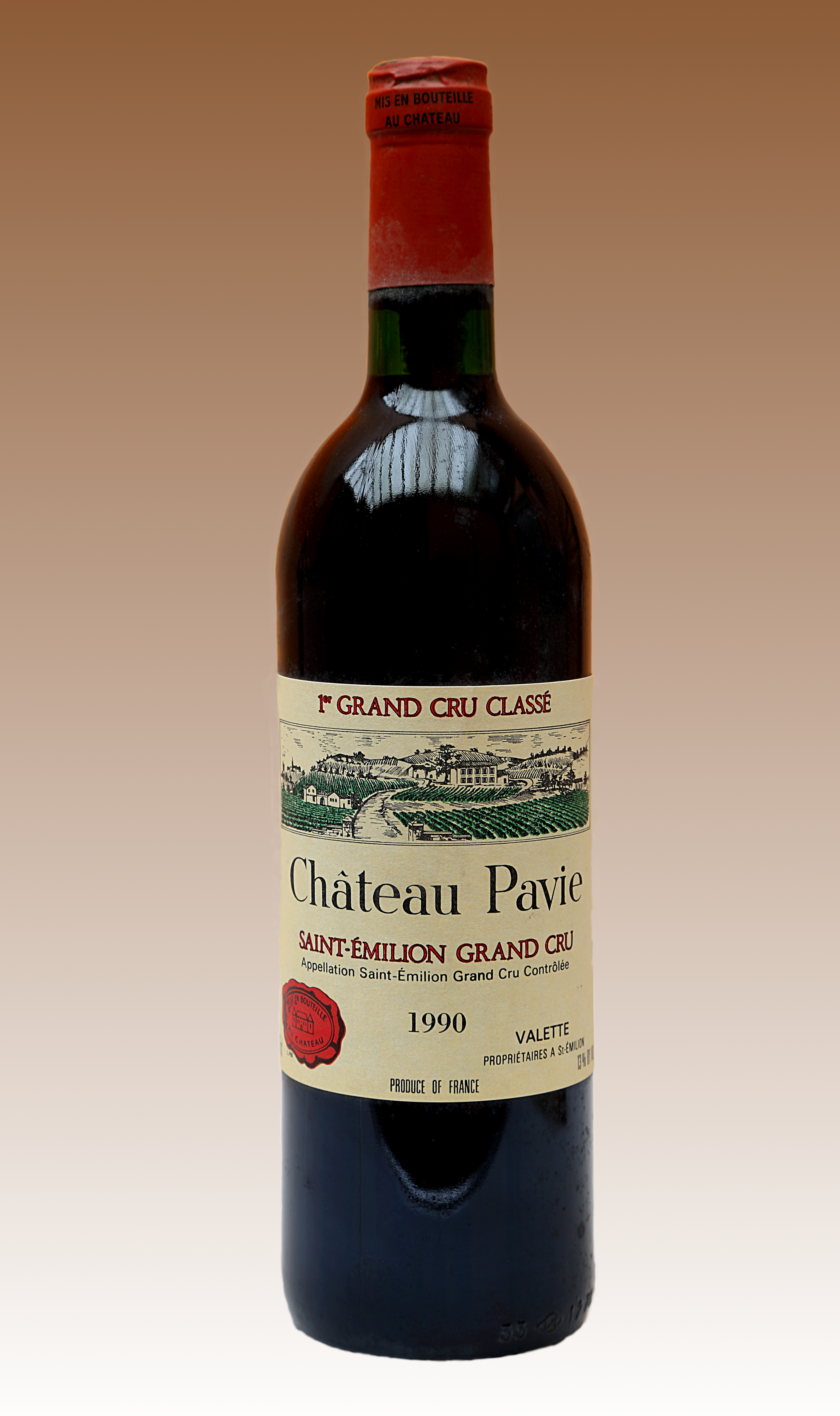 Bottle of Château Pavie 1990, picture taken in Belgium.